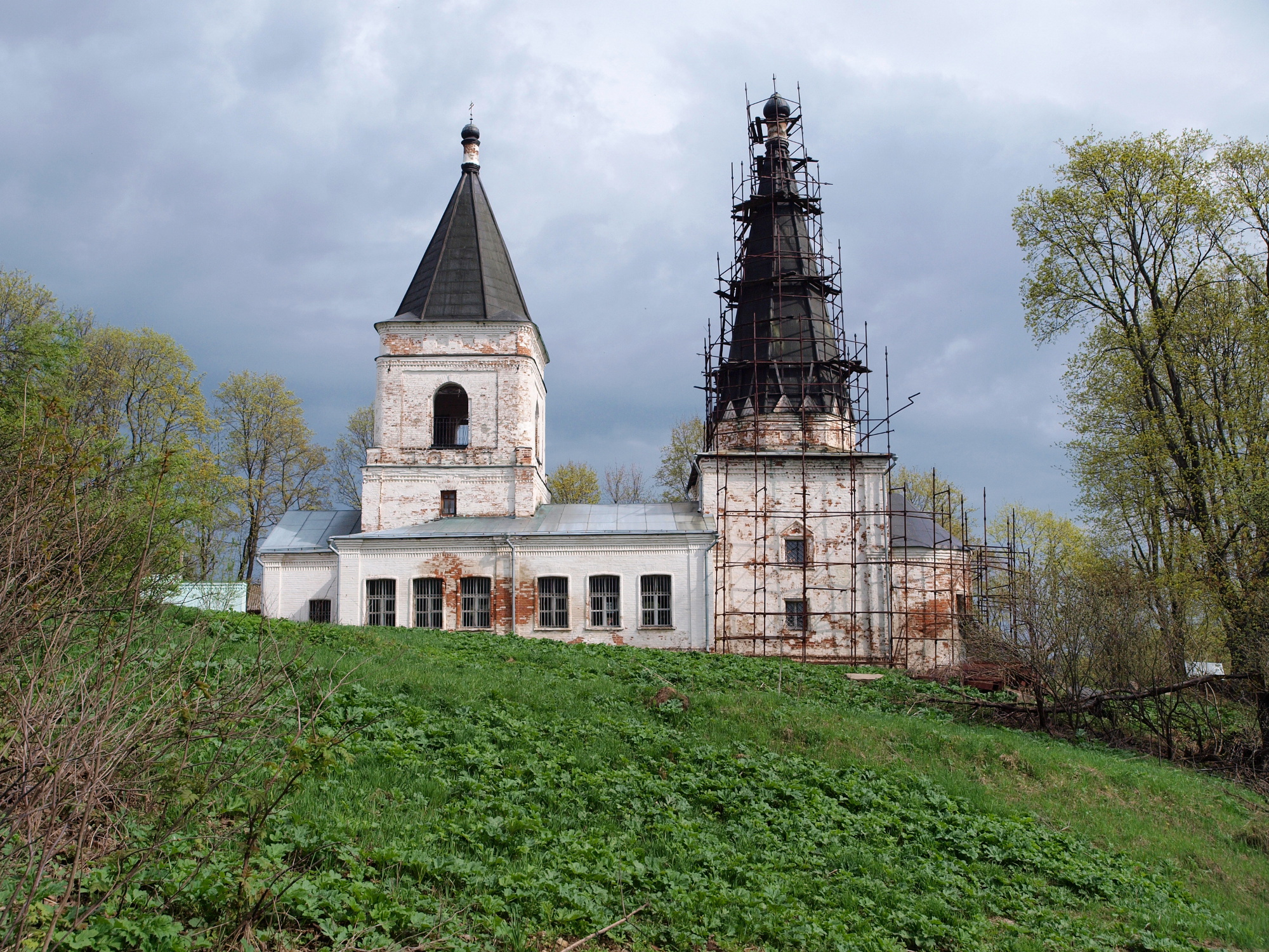 Church of Theotokos Orans in Annino, Ruzsky district, Moscow Oblast, Russia. Built by 1690 by Miloslavsky family. Belltower built in 18th century. Refectory added in 1914.